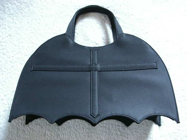 I caved in and bought this. My wallet is crying :(